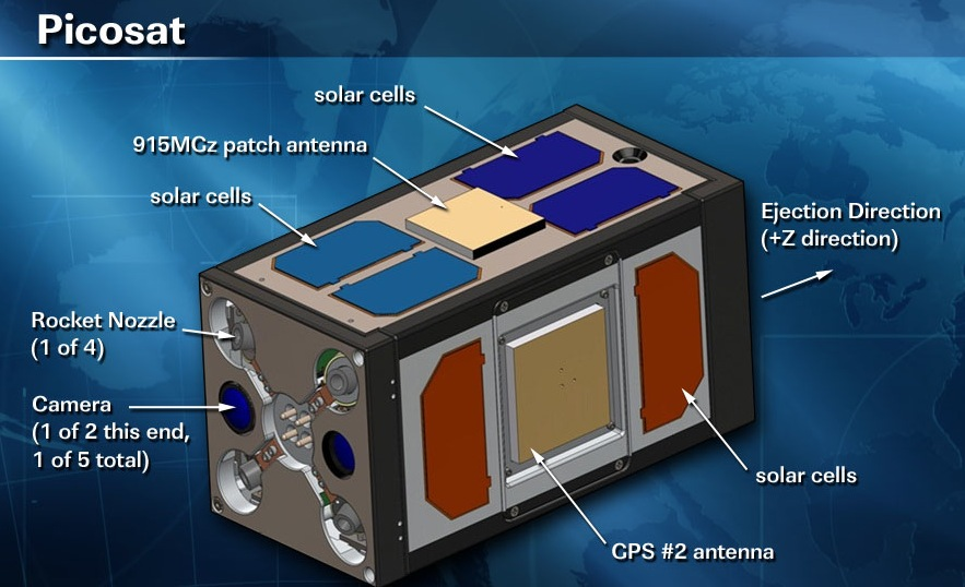 Picosat PSSC view supplied by NASA